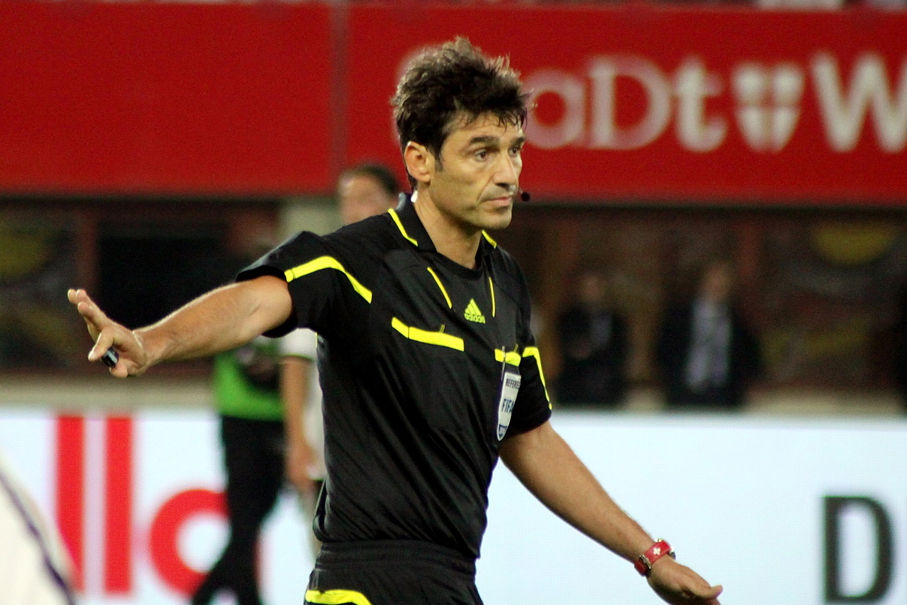 Massimo Busacca, FIFA-Referee of Switzerland - OpenStreetMap(Info)